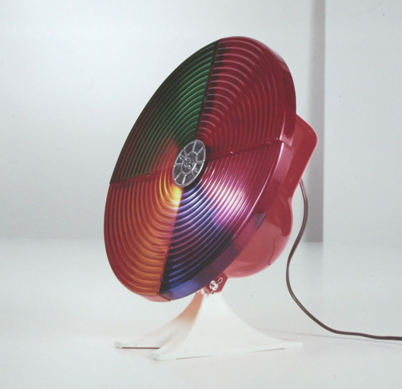 A color wheel in the permanent collection of The Children’s Museum of Indianapolis